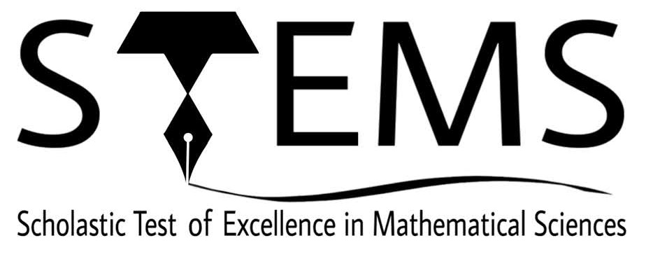 S.T.E.M.S. (Scholastic Test of Excellence in Mathematical Sciences) is an exam conducted by Chennai Mathematical Institute(CMI) as a part of the their annual festival called Tessellate for students from 8th std to Final year of UG.